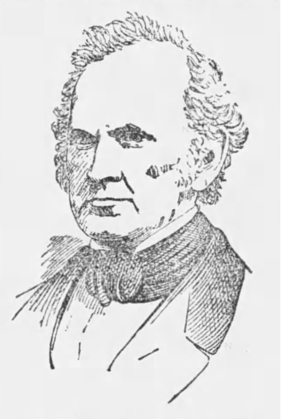 Drawing of Judge George W. Nesmith from The Boston Globe (January 16, 1889), p. 4.